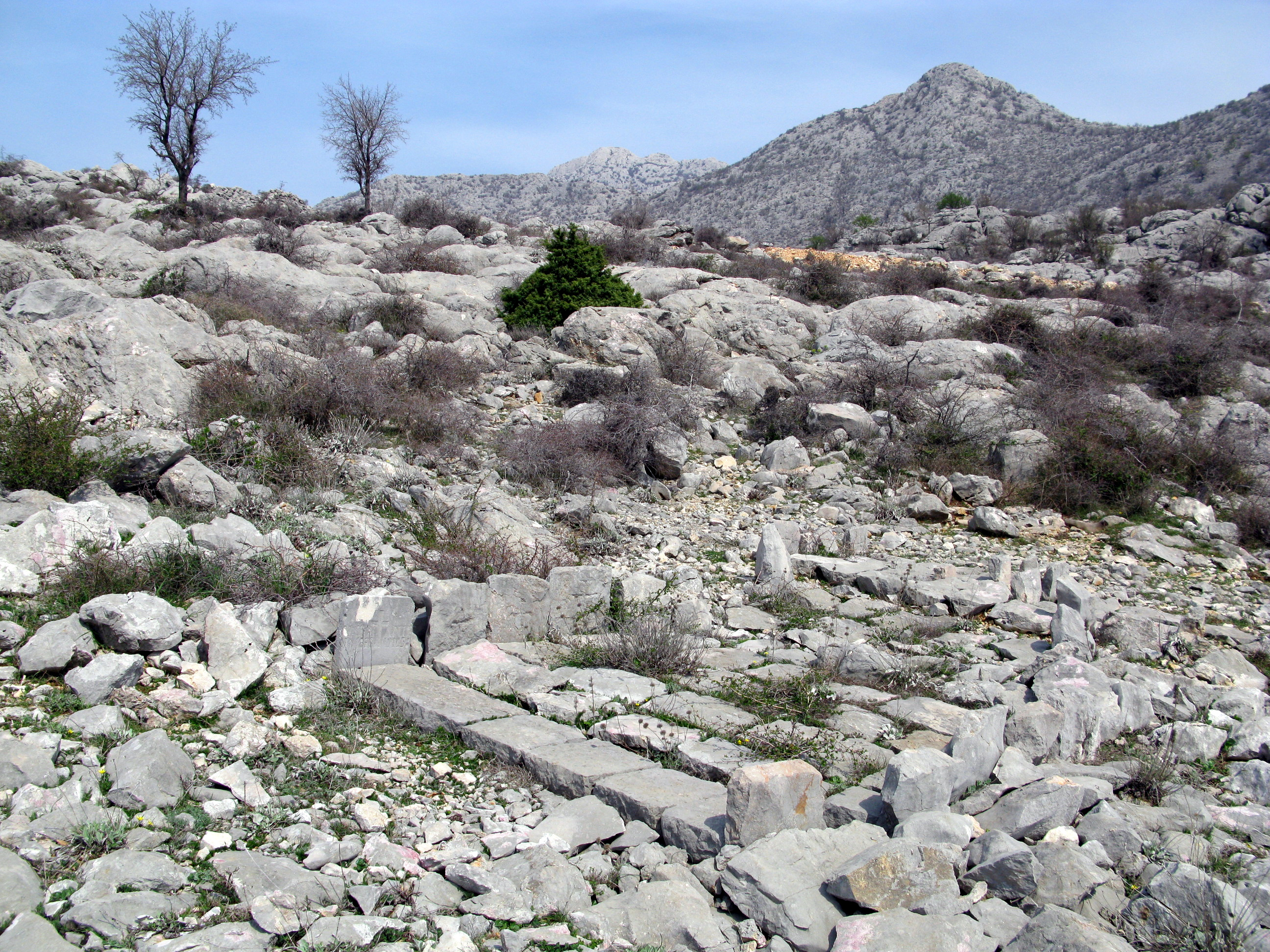 Mirila above Tribanj Kruščica at the Adriatic Highway near Starigrad in the Velebit mountain range in Croatia / Balkans / southeastern Europe.